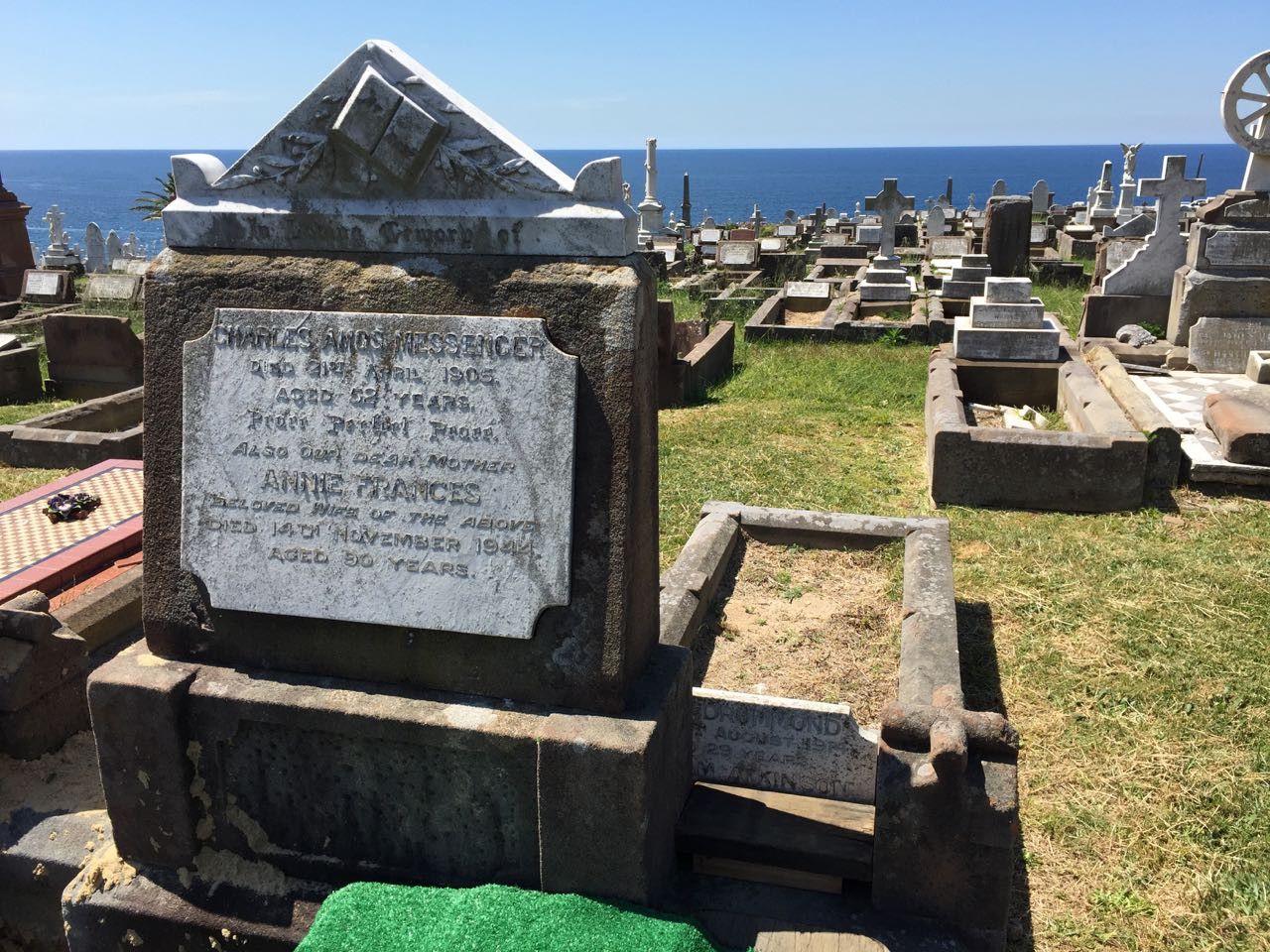 This grave of the champion sculler is situated in Waverley Cemetery at Clovelly in NSW. The full inscription reads: -Charles Amos Messenger, Died 21st April 1905, aged 52 years, Peace Perfect Peace, also our dear Mother, Annie Frances, Beloved wife of the above, died 14th November 1944, Aged 90 years.